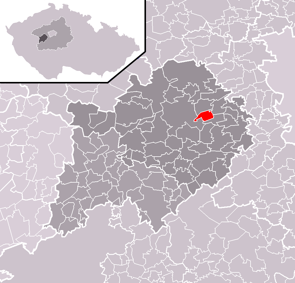 Location of Svatý Jan pod Skalou municipality within Beroun District and administrative area of Beroun as a Municipality with Extended Competence.